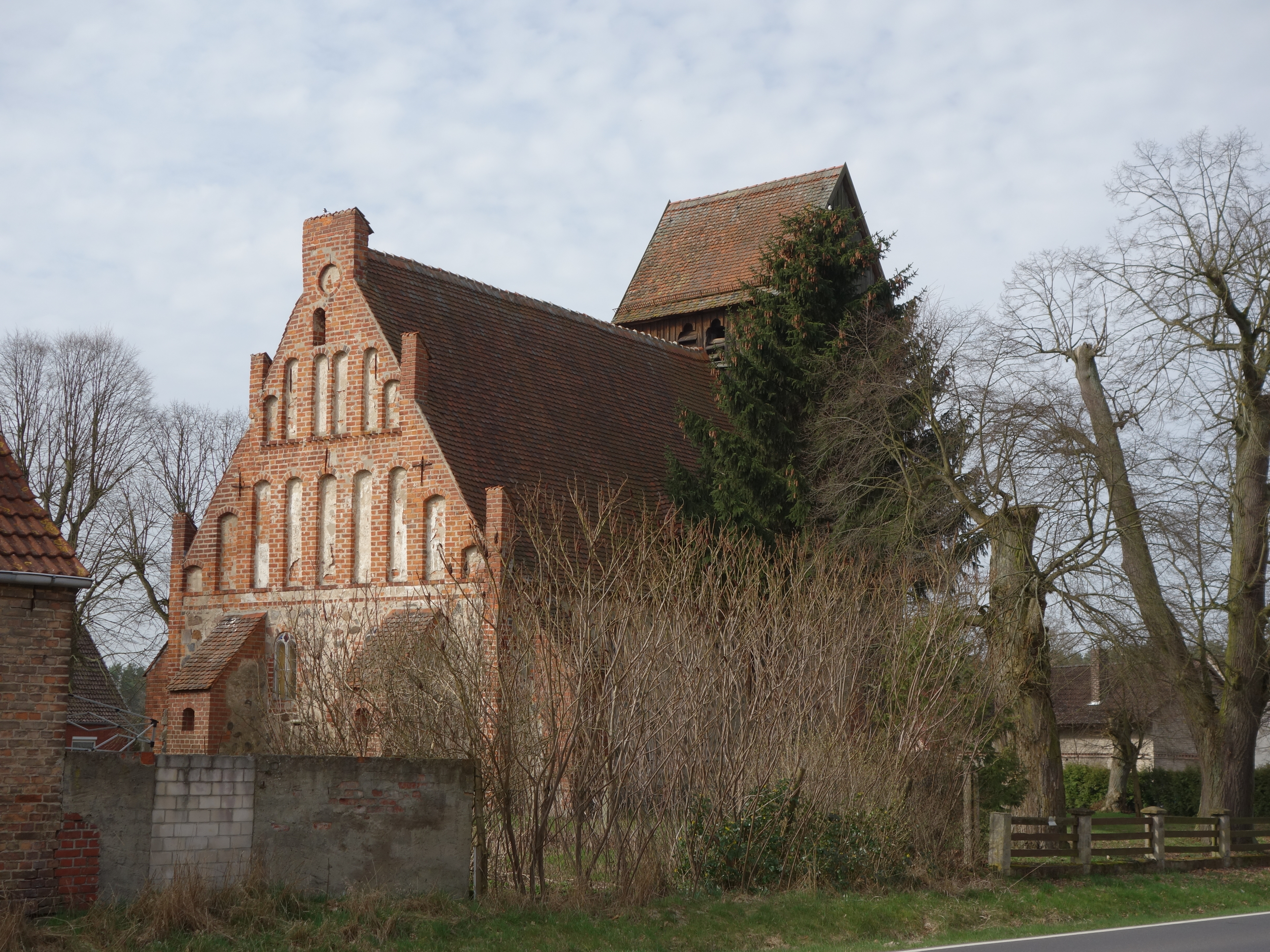 North-eastern view of church in Rossow, Wittstock municipality, Ostprignitz-Ruppin district, Brandenburg state, Germany